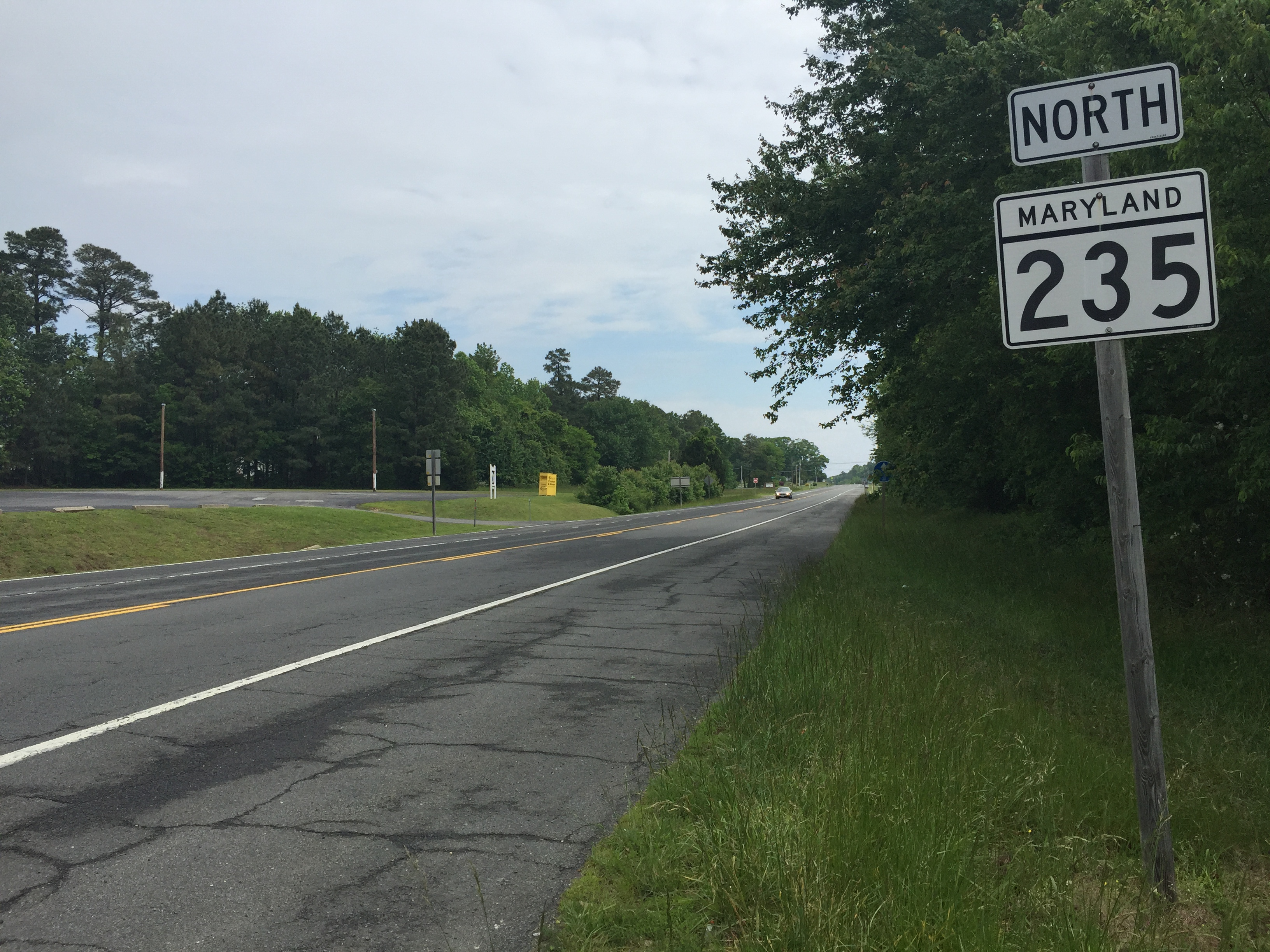 View north along Three Notch Road (Maryland State Route 235) near Point Lookout Road (Maryland State Route 5) in Ridge, St. Mary's County, Maryland